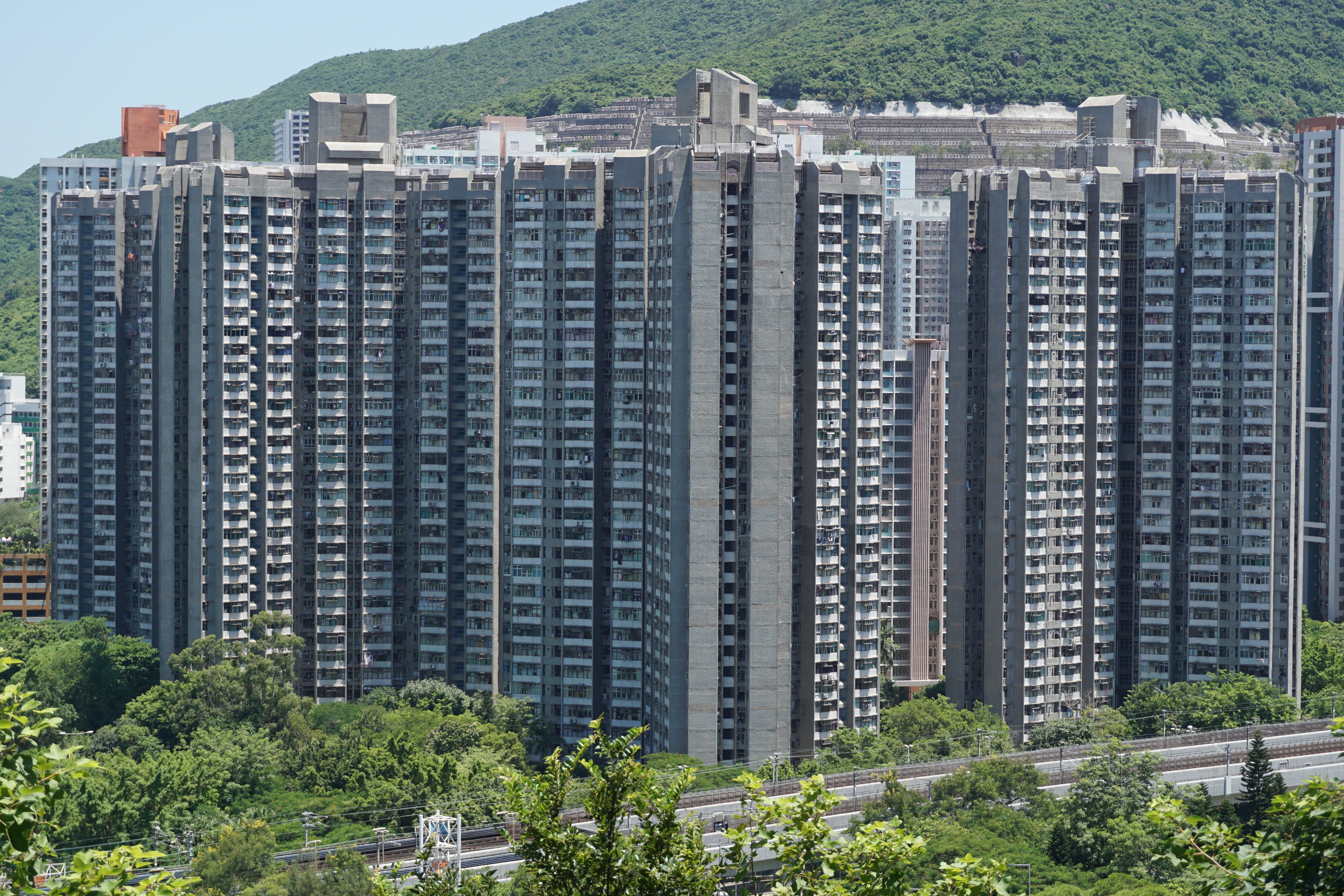 Tsui Wan Estate in Chai Wan, Hong Kong.